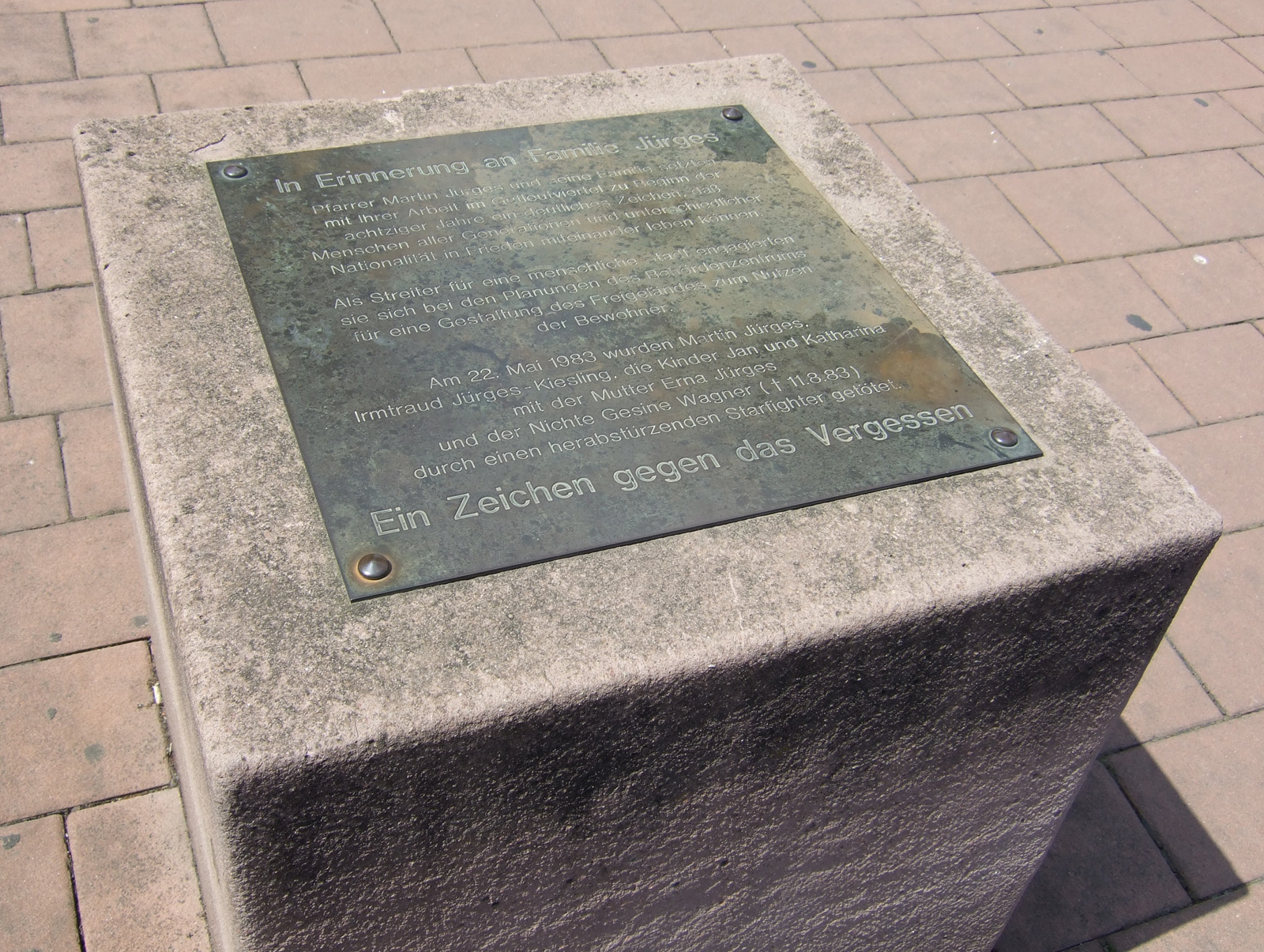 Juerges family memorial plate installed on Familie-Jürges-Platz in Frankfurt am Main, Germany